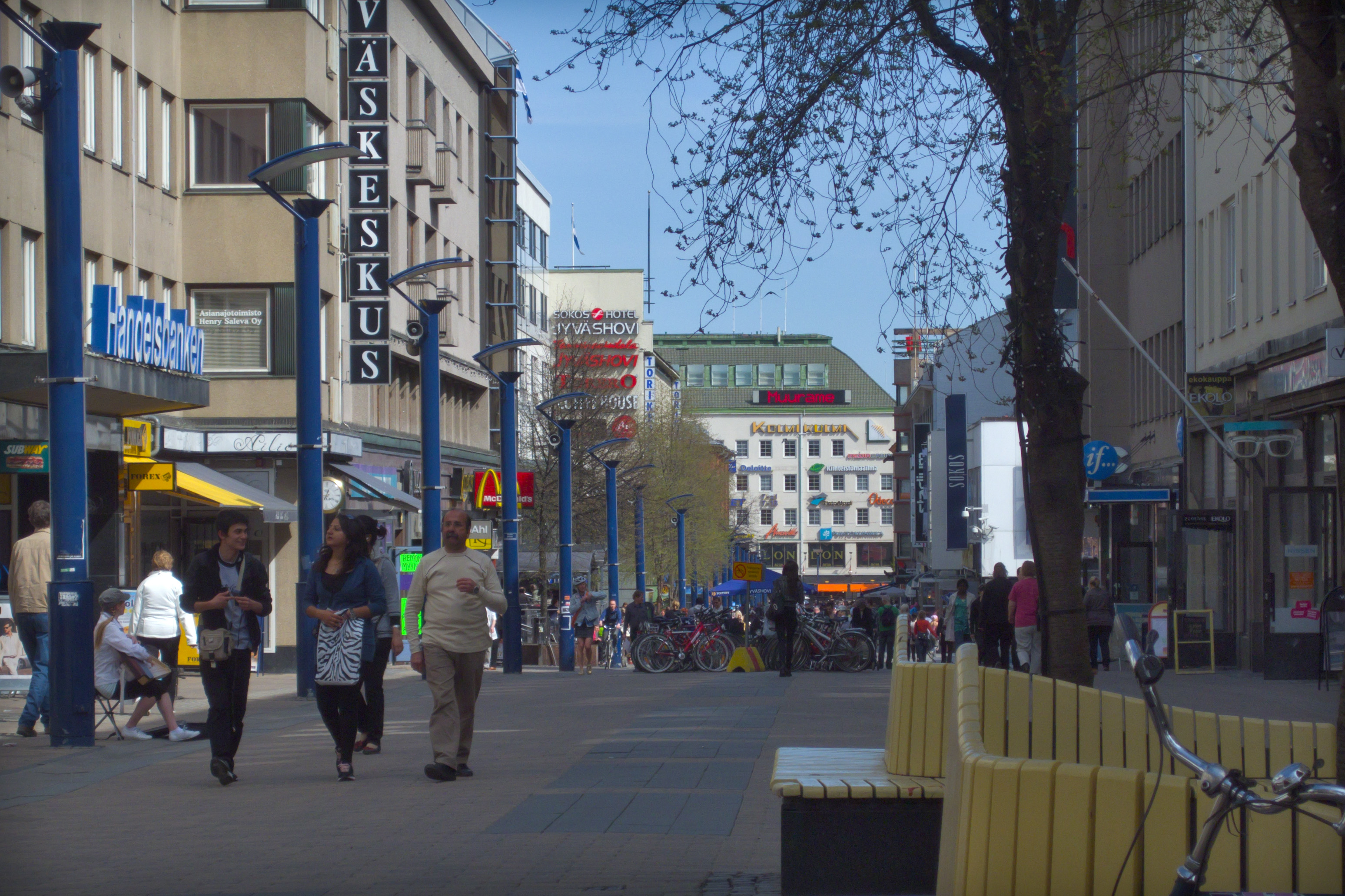 Kauppakatu pedestrian street at Jyväskylä, Finland.